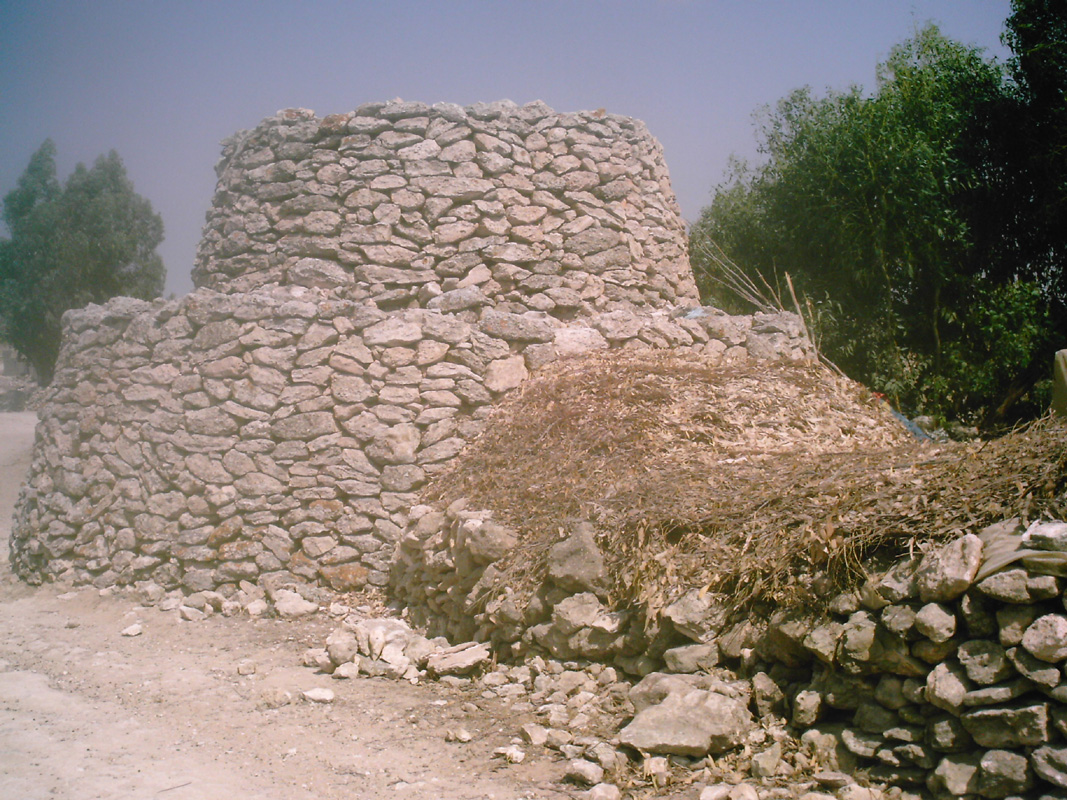 tazota (or casota), a dry stone hut used by farmers for storing hay and straw, in the Doukkala region of Morocco; tazotas were built under the Protectorate by sedentarized nomads; the word is tamazight